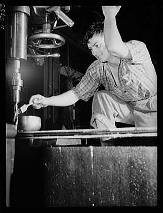 Manpower. Americans all. Husky, bright-eyed Joe Gore, Jr., is a young American of Polish descent who is determined that Hitler shall be driven from Poland and kept from America's shores. An expert machine operator, Joe is one of many hundreds of first and second-generation Americans of every possible background and heritage who are turning out medium tanks for Uncle Sam's fighting men in a Midwest tank plant. Pressed Steel Can Company, Chicago, Illinois